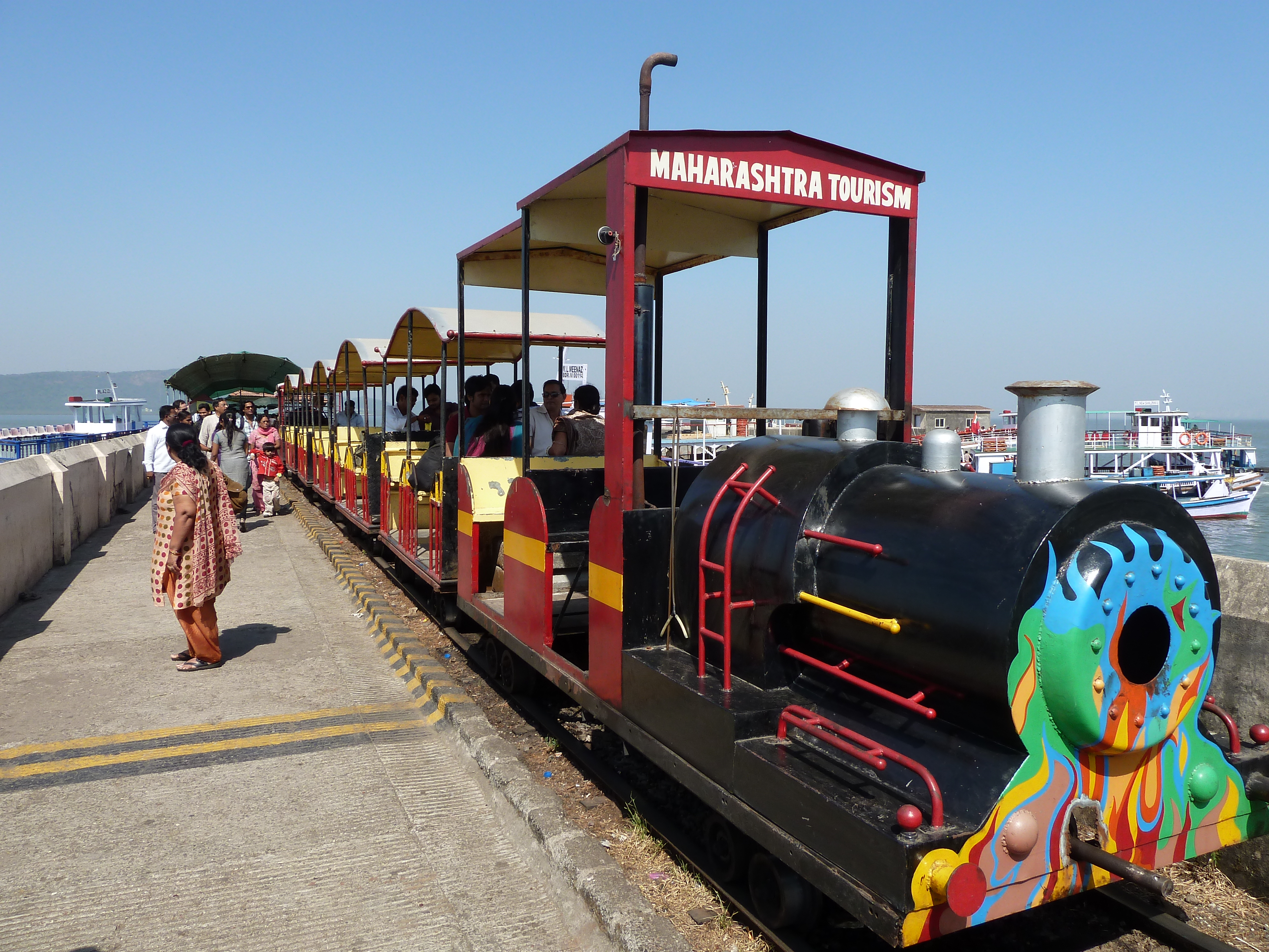 This is the toy train in elephanta caves. It runs from the Jetty to the foot hills in the Elephanta island, Mumbai